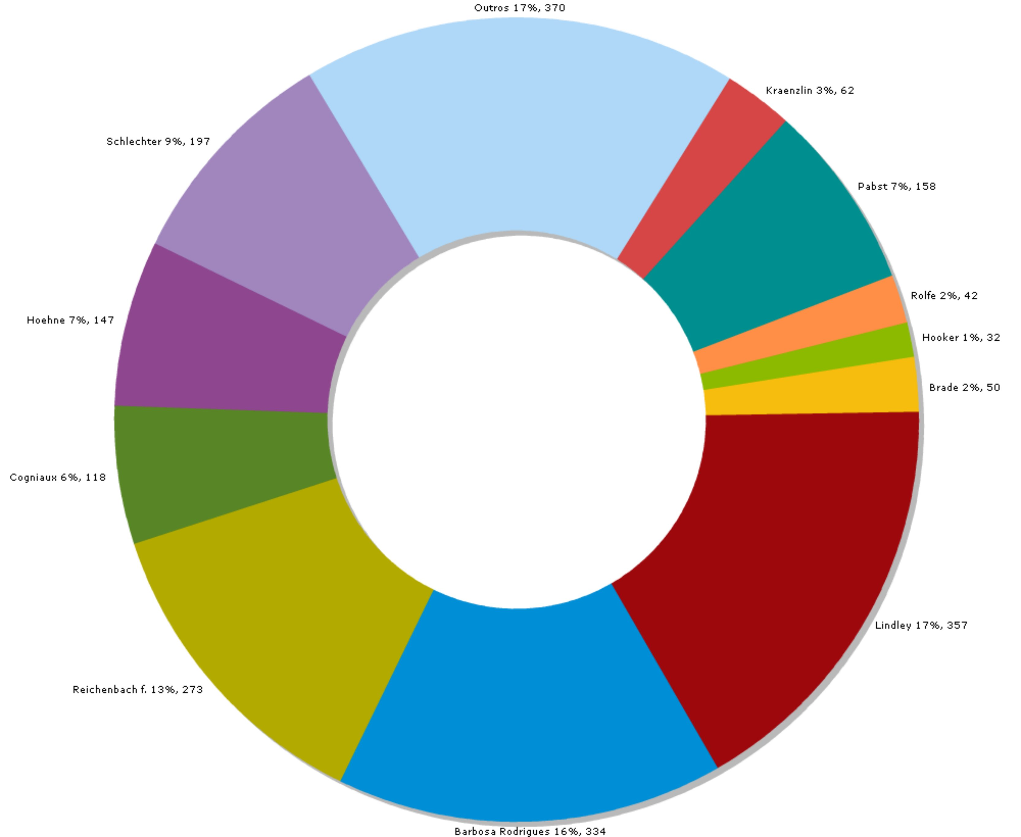 Number by author of publications of orchids of Brasil of species still accepted even when reclassified under other genera, up to 1980.